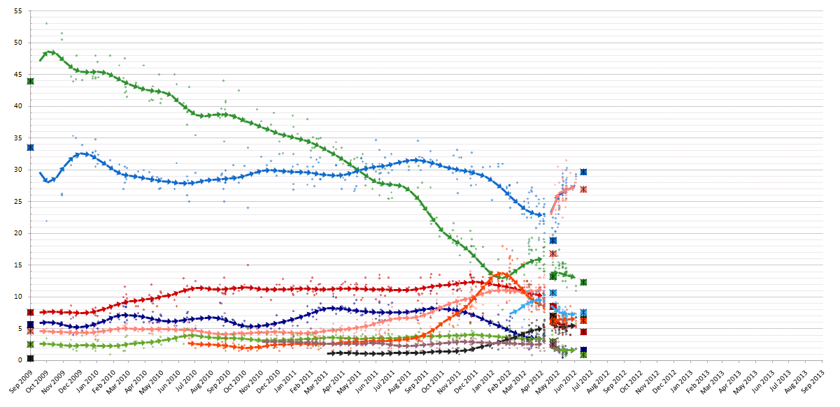 Opinion polling 15-day average leading up to the Greek legislative election, May 2012